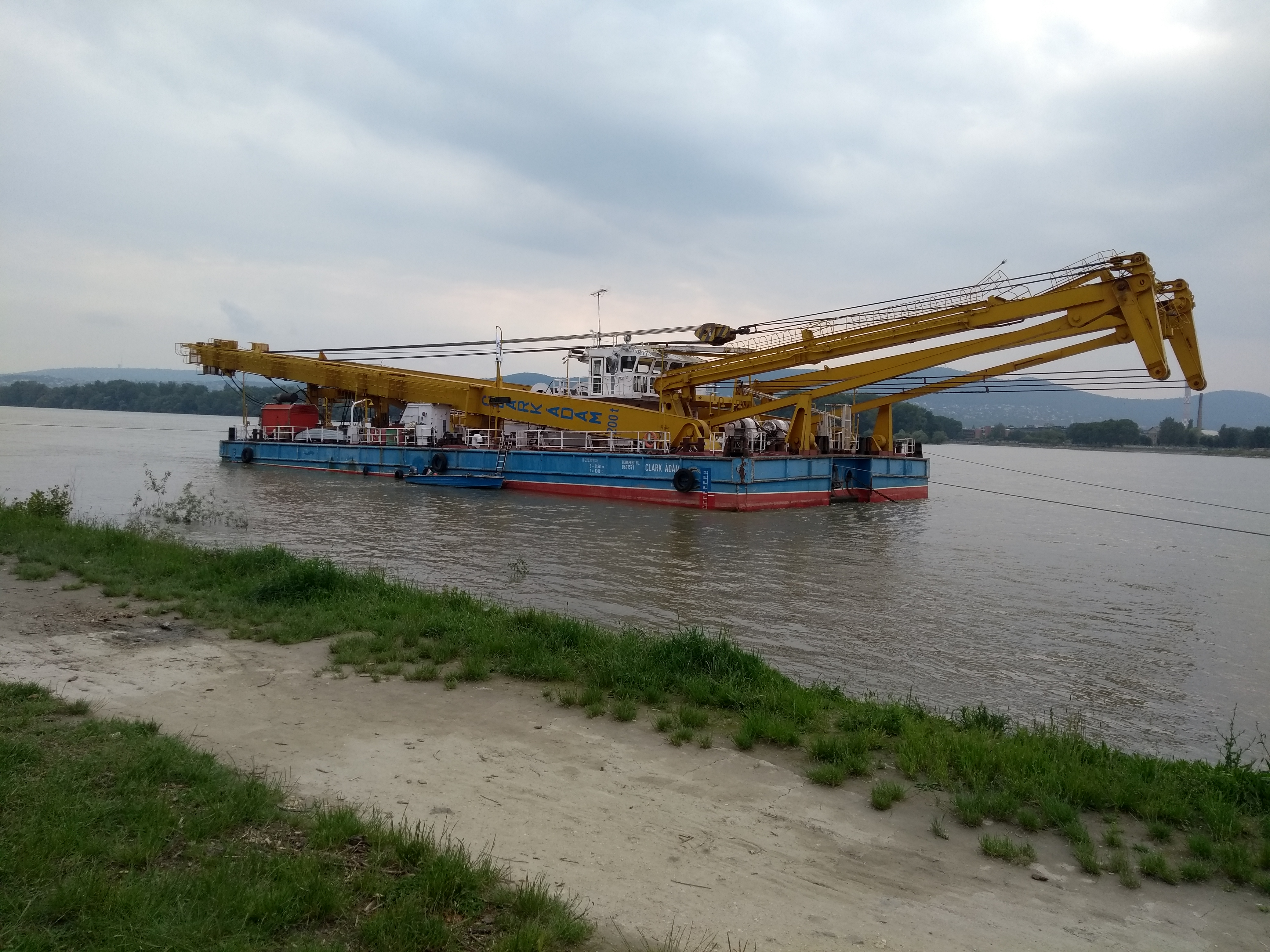 Clark Ádám crane vessel used to raise the sunk Hableány, docked at Újpest (just south of North Rail Bridge). The ship couldn't pass under Margaret Bridge due to the high water levels on the Danube.